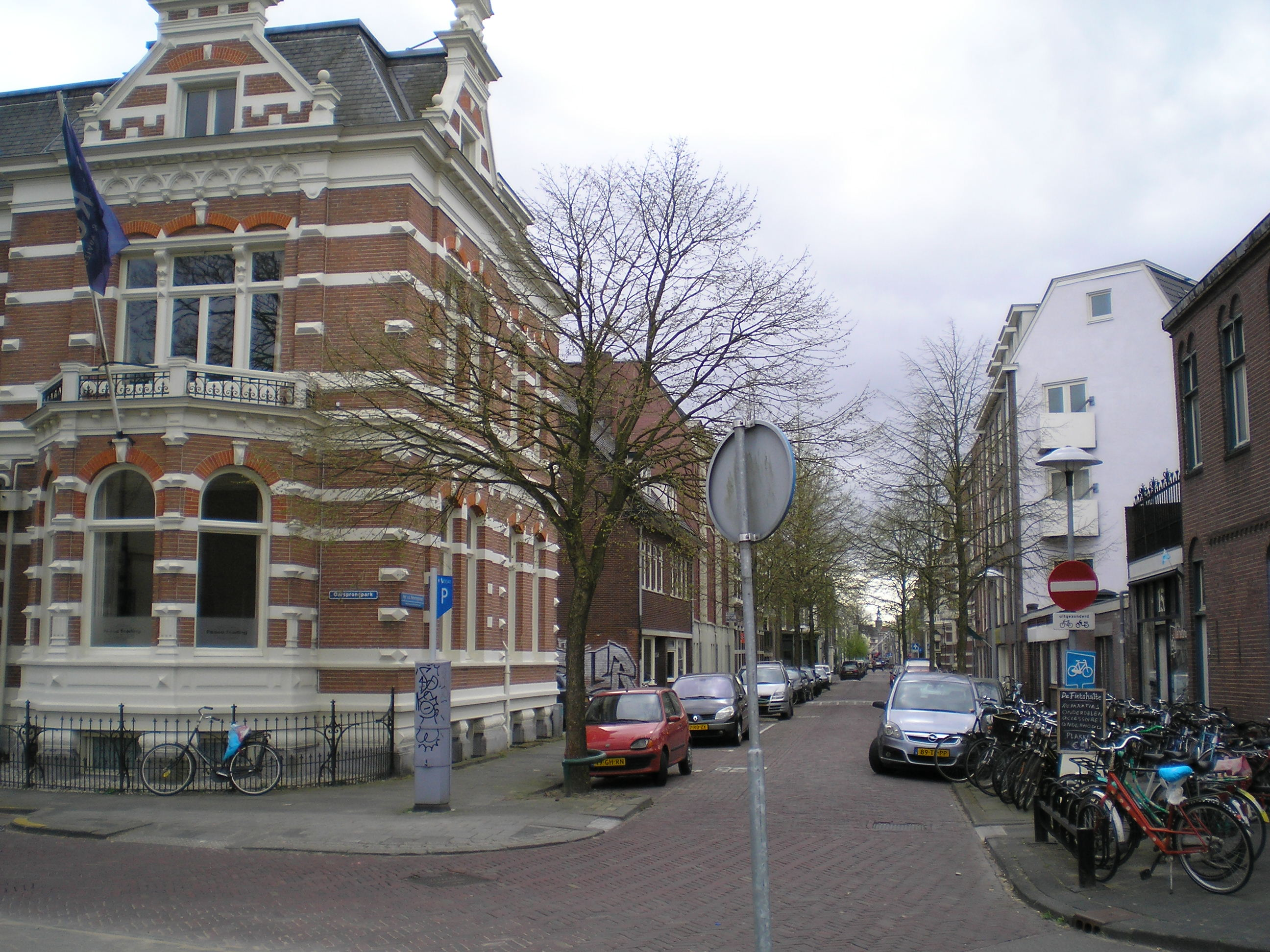 Oorsprongpark corner Monseigneur van de Weteringstraat in Utrecht in the Netherlands